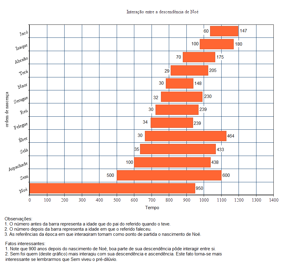 See the interaction among the descendents of Noah in this graph